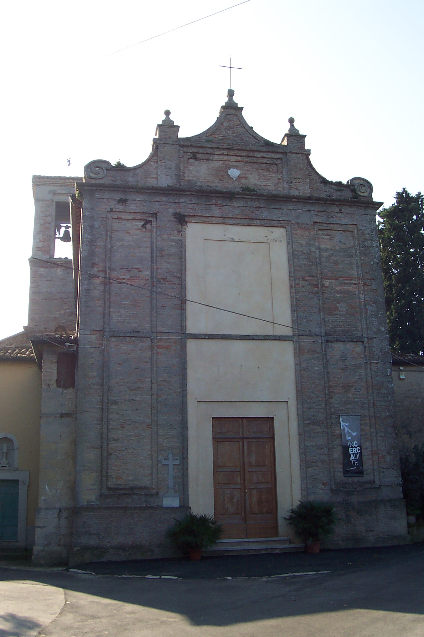 The Church of St. Julian the Martyr in the village of Trebbiantico, Province of Pesaro and Urbino, Italy.